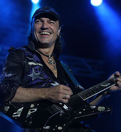 Matthias In Kavarna 2009